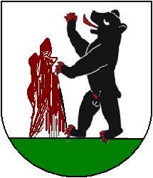 Coat of arms of Stein, Canton of Appenzell Ausserrhoden, Switzerland